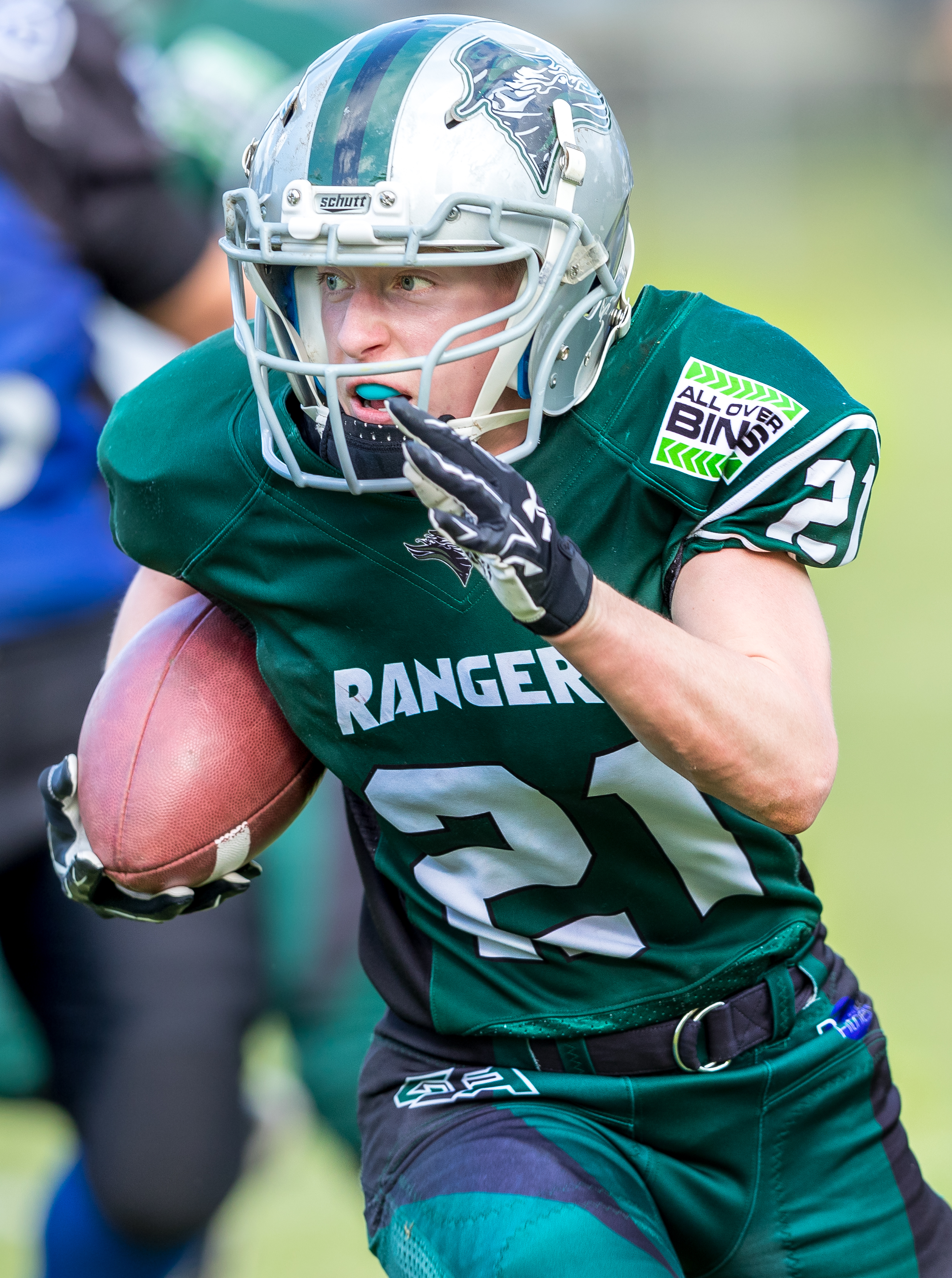 Tanya Russell 2017 most valuable player for the Croydon Rangers Women's Gridiron Team.Photo was taken at the 2017 Women’s Vic Bowl on Saturday the 13th of May 2017, Springfield Ave, Croydon Australia VIC 3136 Croydon Rangers defeat Melbourne Uni Chargers 12-7